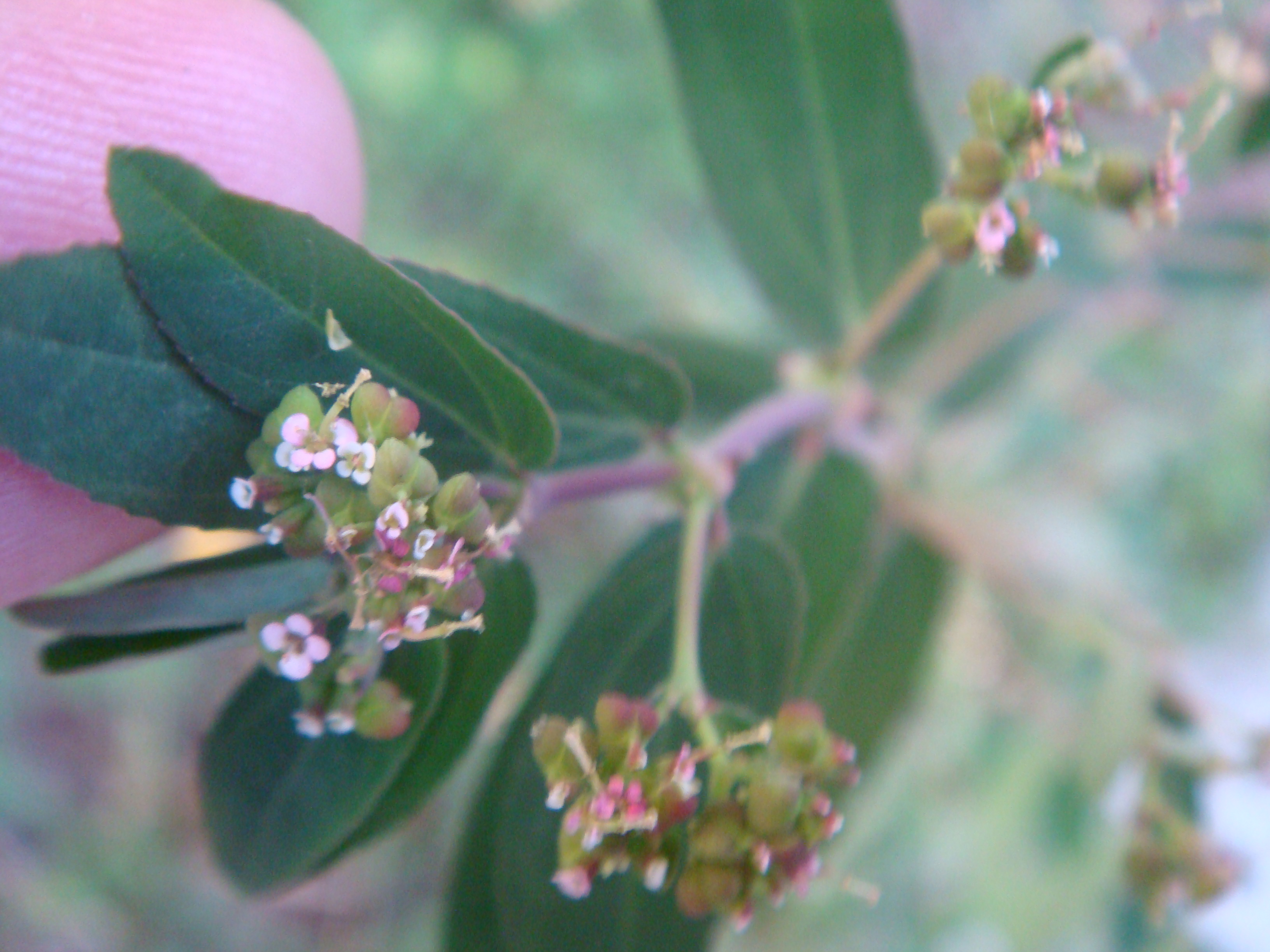 Euphorbia nutans, weed, Arizona State University, Tempe, Arizona